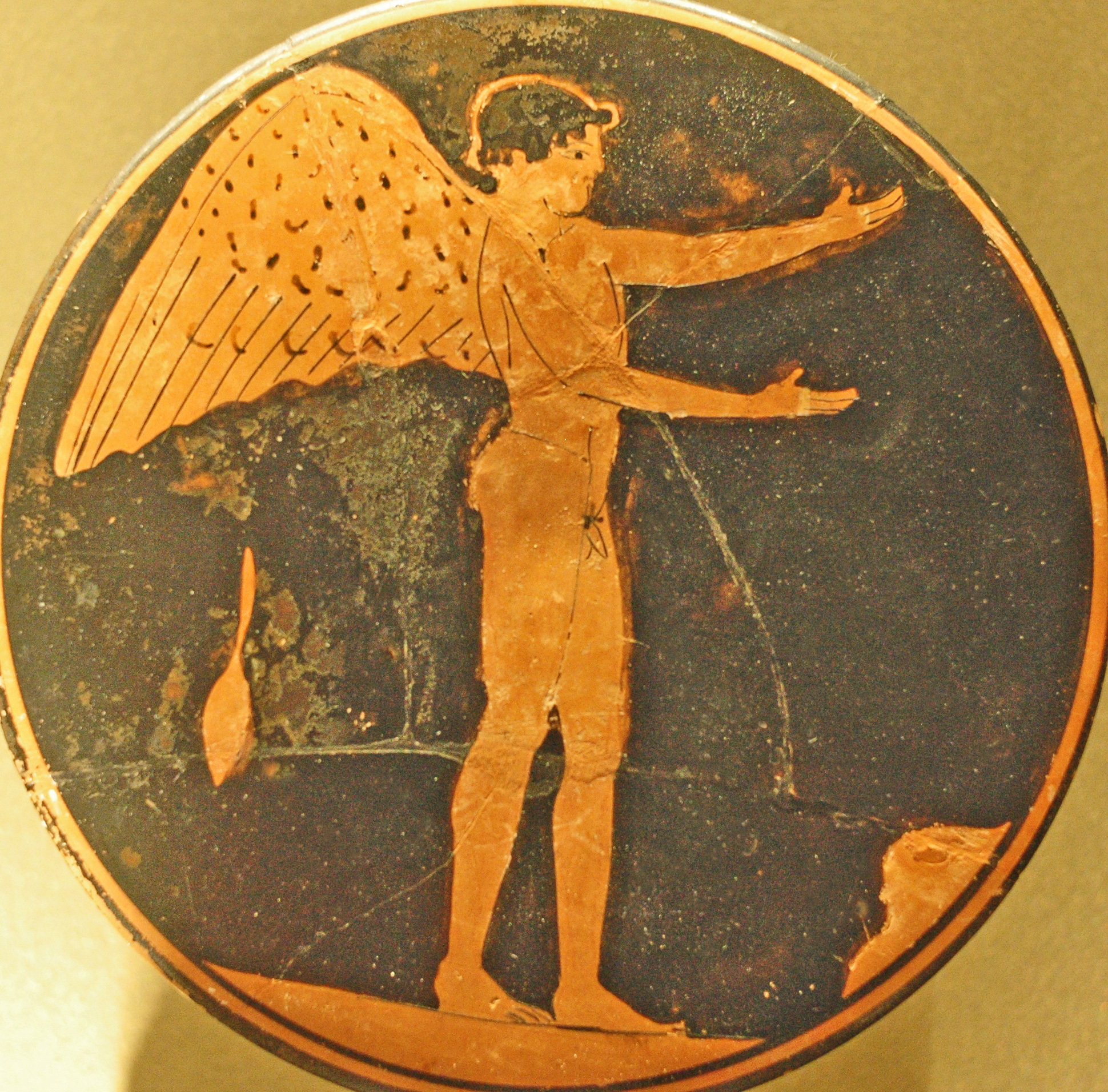 Eros, red-figure bobbin by the London D 12 Painter, ca. 470 BC–450 BC, found in Athens. Location: Louvre, Department of Greek, Etruscan and Roman Antiquities, Sully wing, Campana Gallery (CA 1798)